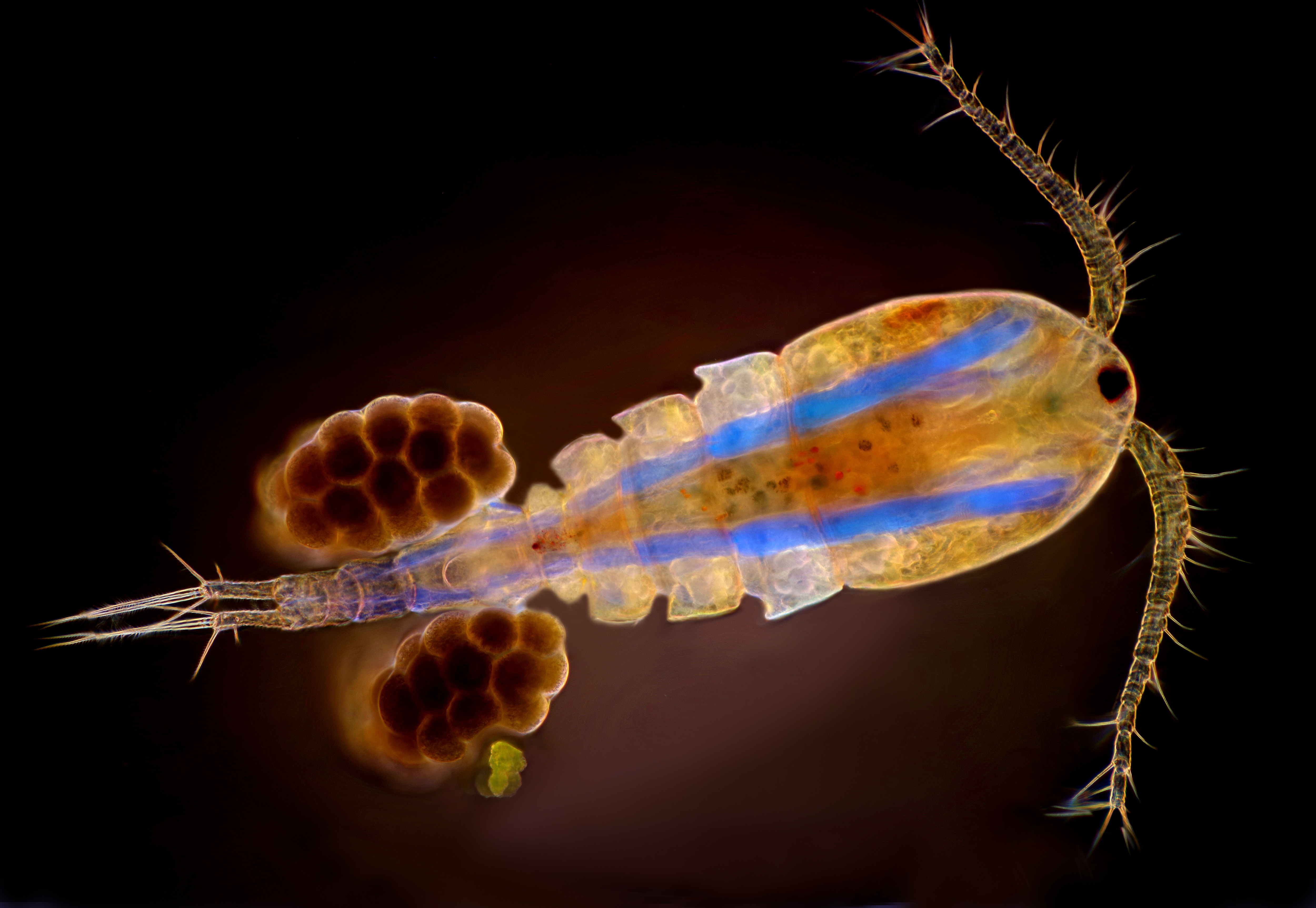 The image presents Cyclops, one of the copepods. Magnification is 50X. Technique of the illumination is dark field and polarized light.